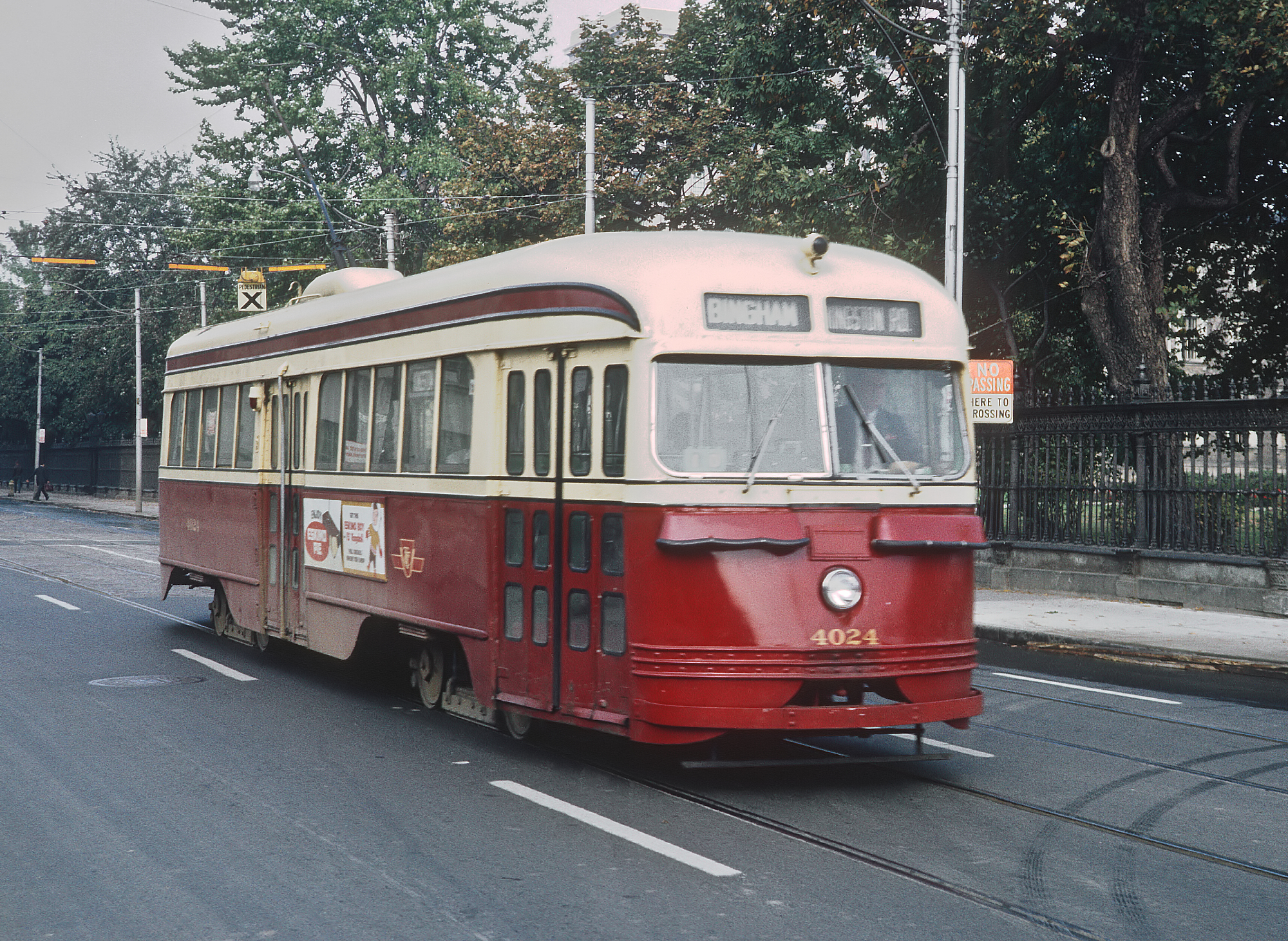 Roger Puta photograph